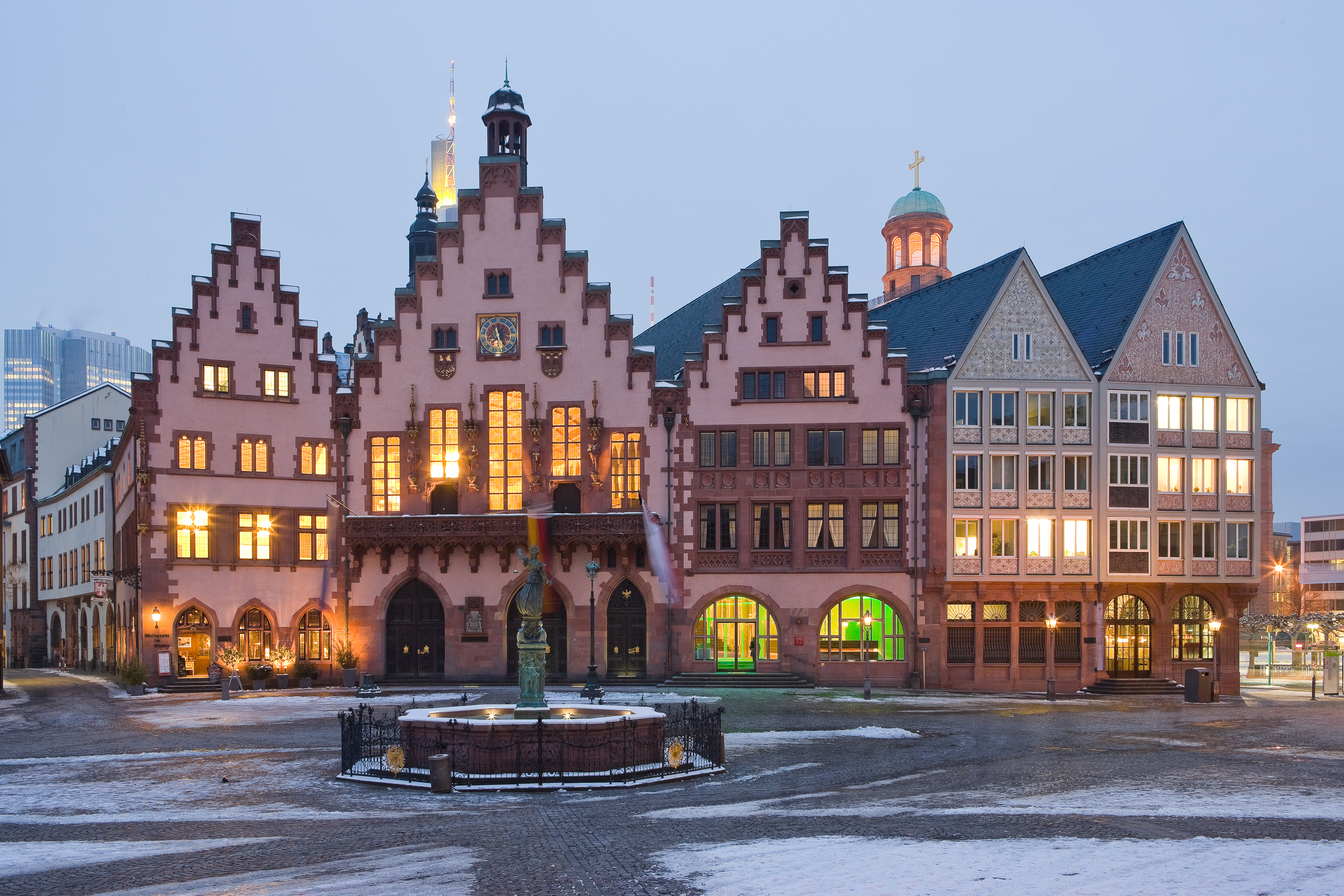 Frankfurt on the Main: Facades of the Roemer at the Roemerberg (Roemer Square) as seen from the east